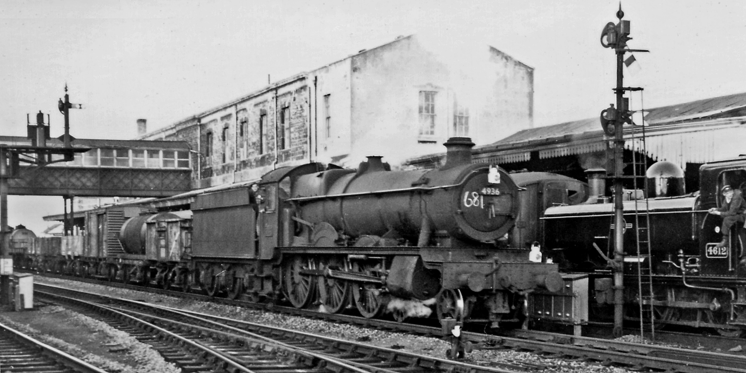 Down freight passing Swindon station. View eastward, towards Reading and London; ex-GWR Paddington - Reading - Swindon etc. main line. This Class F freight is passing through, headed by 4-6-0 No. 4936 'Kinlet Hall' (built 6/29, withdrawn 1/64). At the Down platform is '8750' class Pannier 0-6-0T No. 4612 on station pilot duty, clearly fresh out of repairs at Swindon Works.